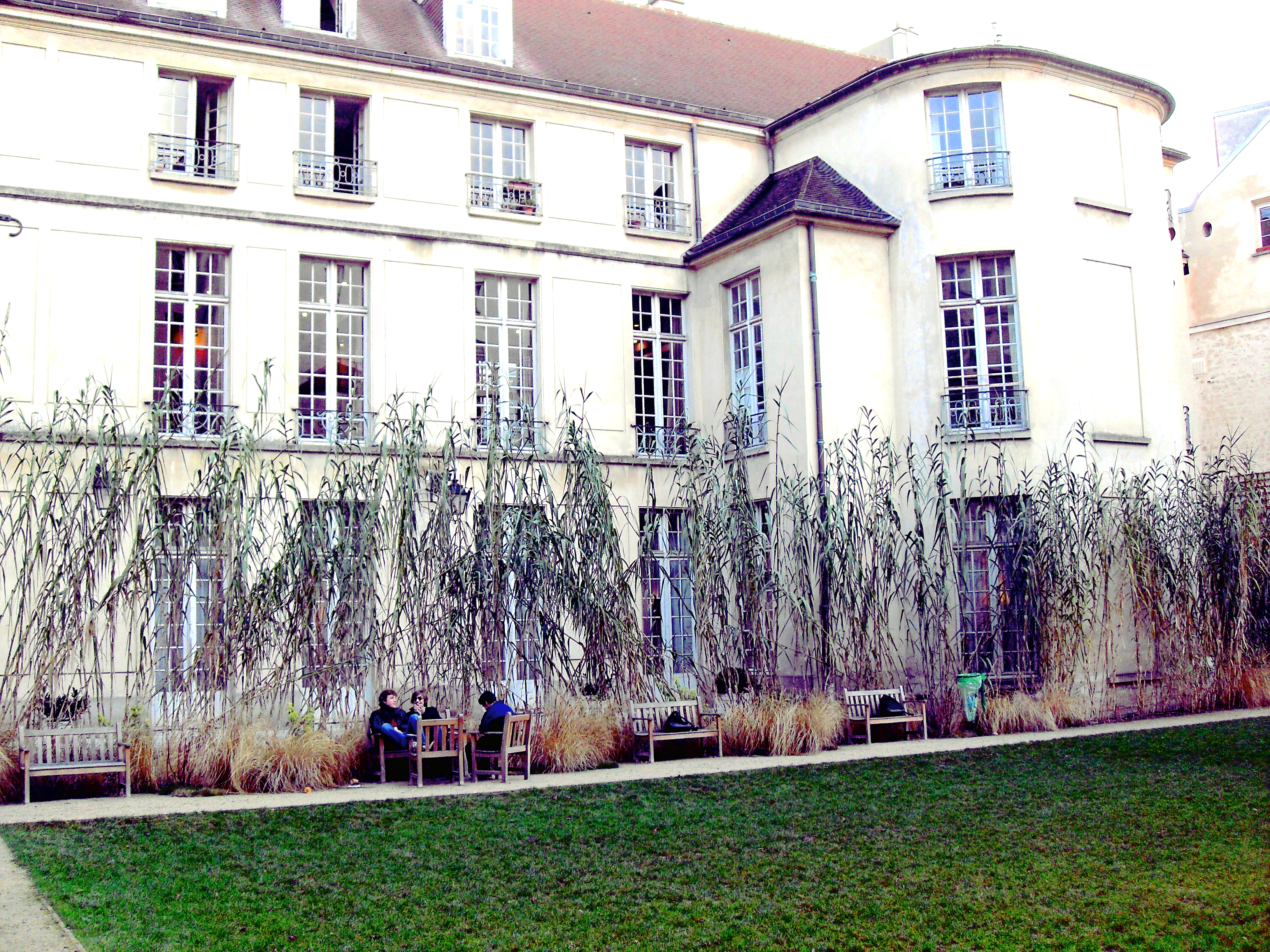 Garden Francs-Bourgeois-Rosiers behind the Hôtel de Coulanges in the street Rue des Francs-Bourgeois, Le Marais, VIe arrondissement, Paris, France.